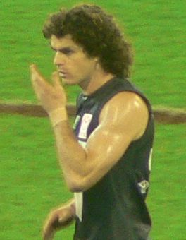 Matthew Scarlett, Australian rules footballer representing Victoria